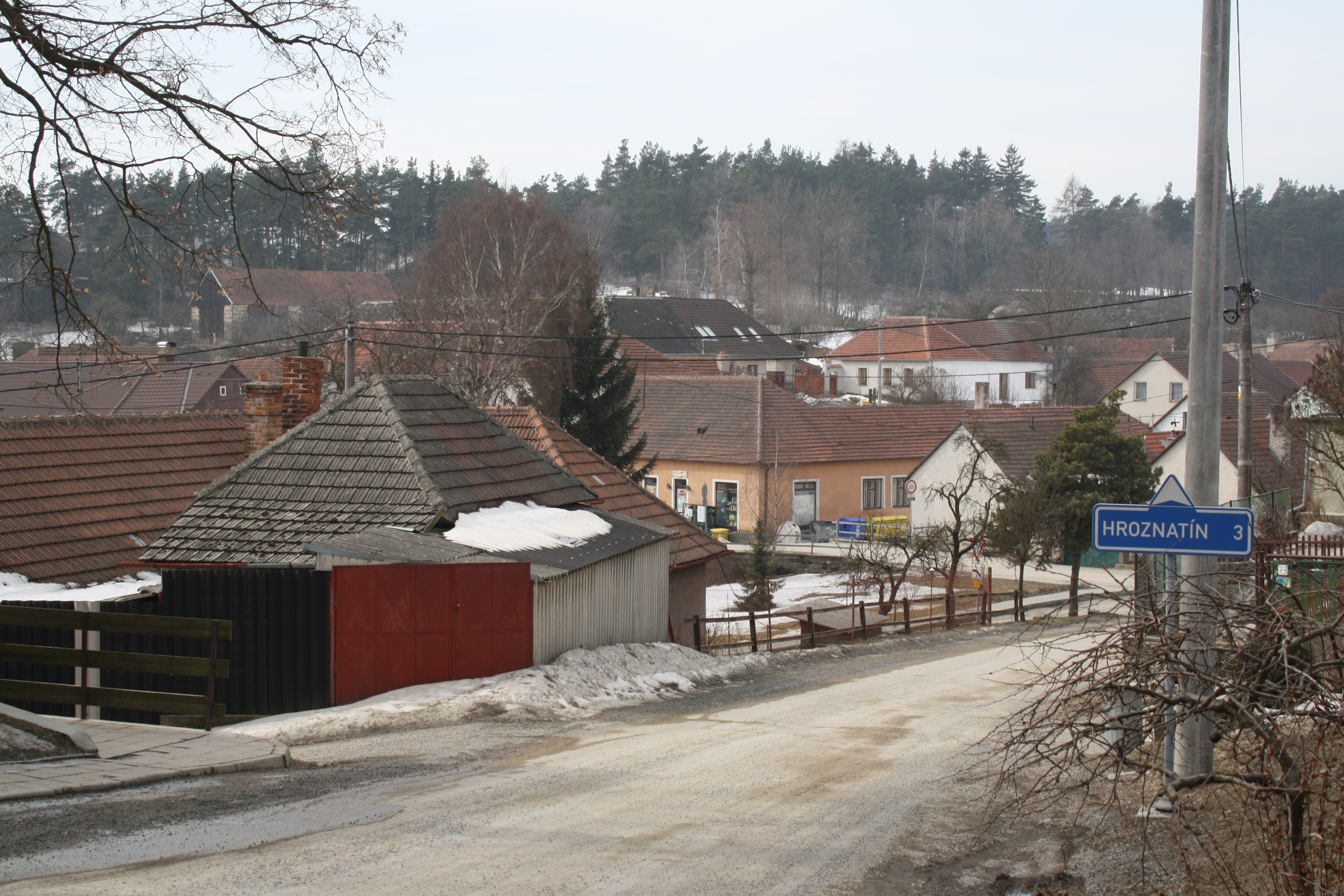 Center of Rudíkov, Třebíč District.